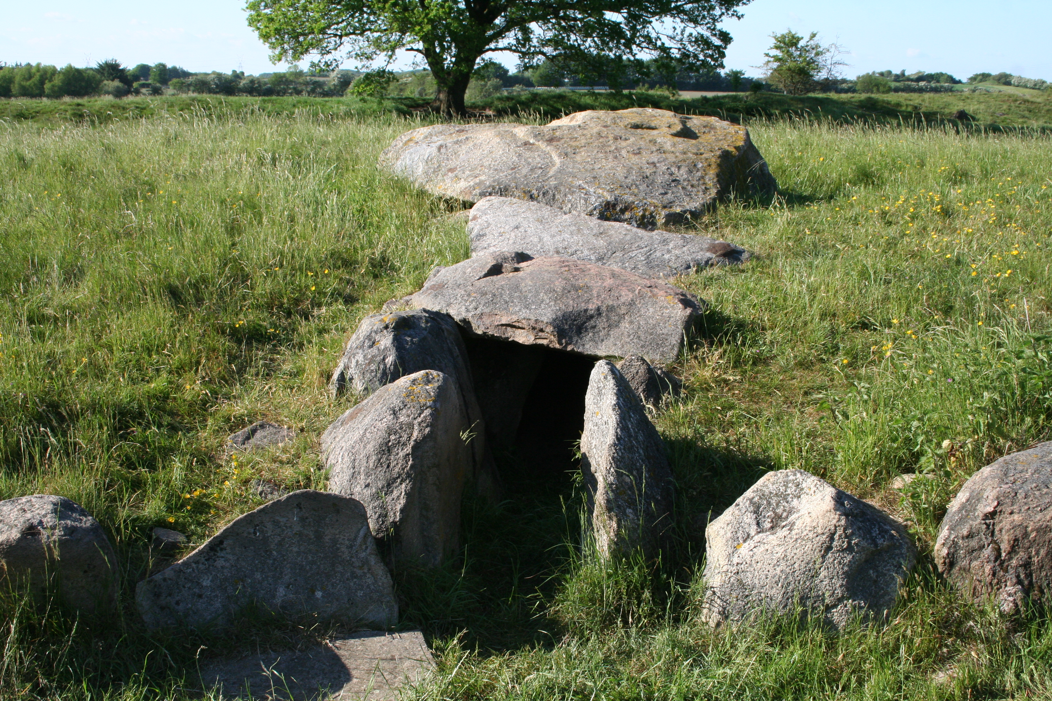 Vedsted Jættestue 1